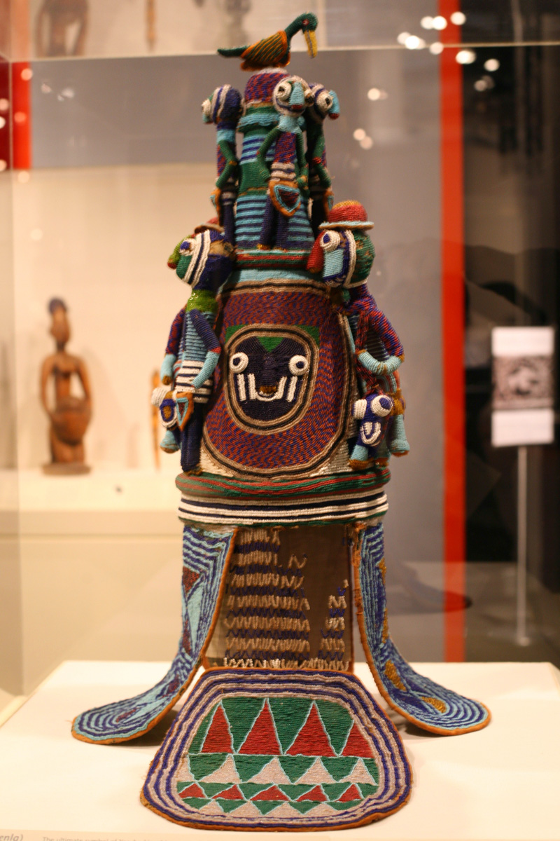 Yoruba. Beaded Crown (Ade) of Onijagbo Obasoro Alowolodu, Ogoga of Ikere 1890-1928, late 19th century. Fiber, beads, cloth, basketry, 37 3/4 x 9 1/2 in. (95.9 x 24.1 cm). Brooklyn Museum, Caroline A.L. Pratt Fund, Frederick Loeser Fund, and the Carll H. de Silver Fund, 70.109.1a-b.